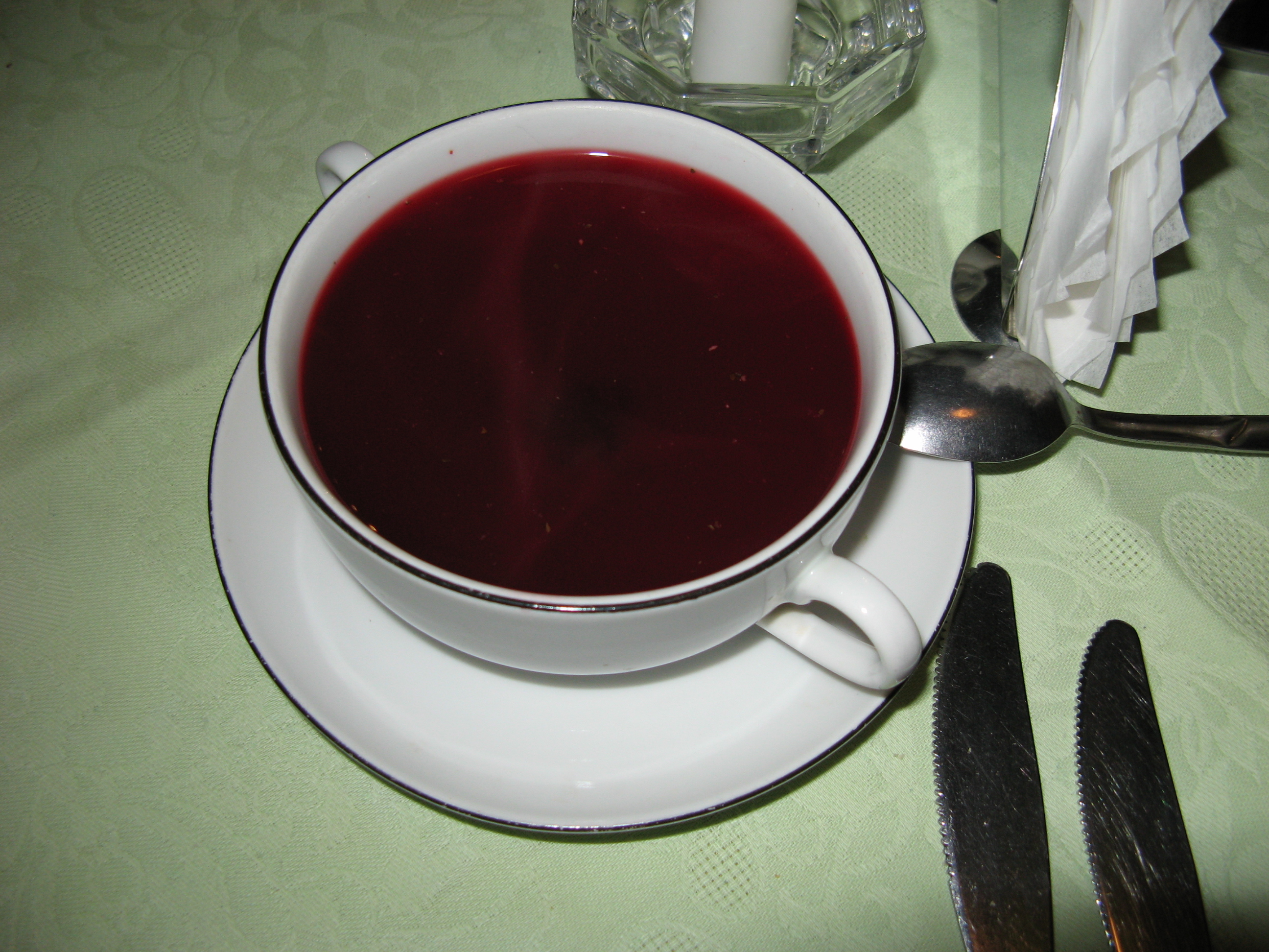 Polish barszcz